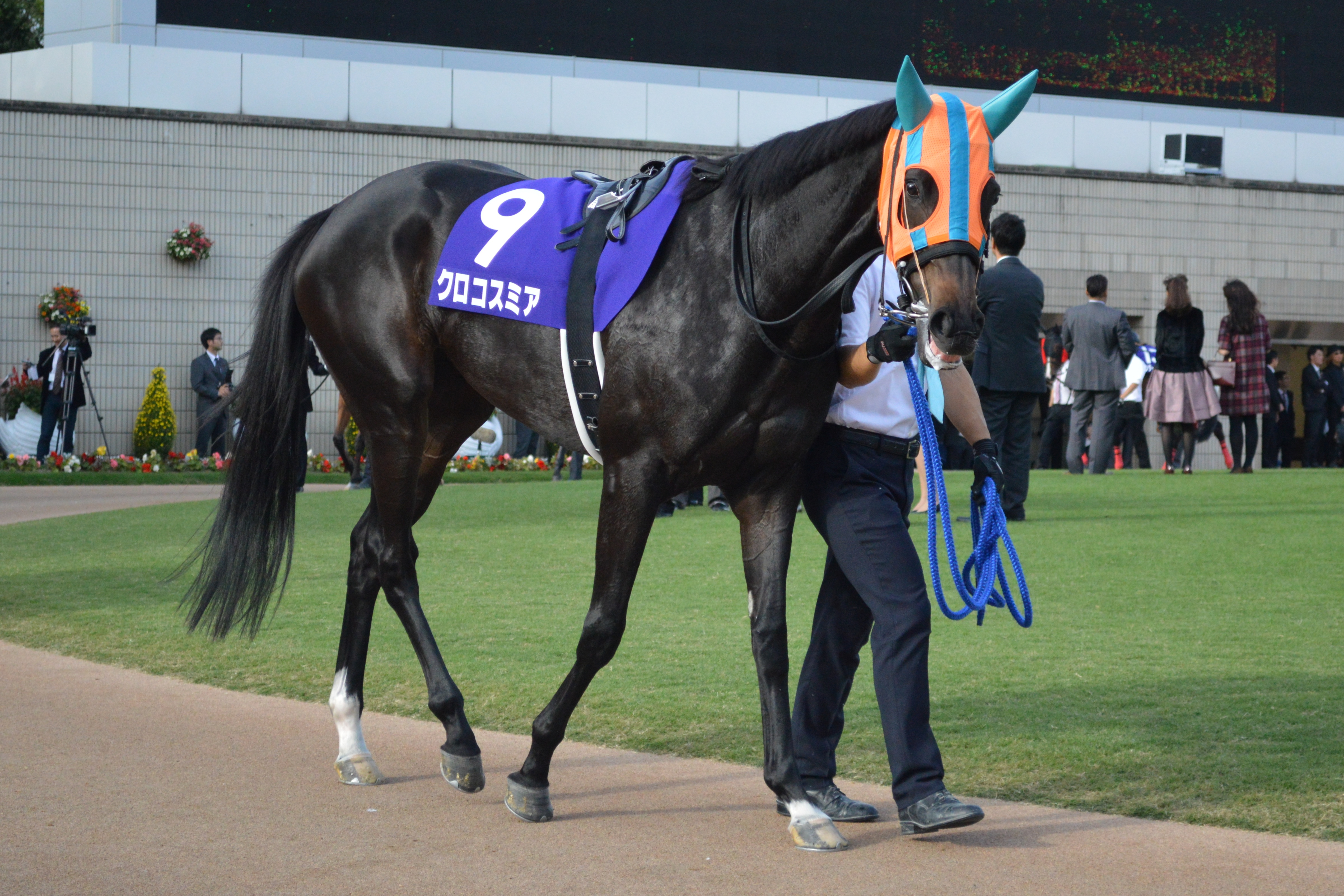 Japanese race horse Crocosmia at Kyoto racecourse. Kyoto (JPN) 16 Oct 2016Shuka Sho (Grade 1) (3yo Fillies) (Turf) 1m2f Yielding RankHorse NameOddsAgeWgtJockeyTrainer1stVivlos (JPN)53/10F38-9Yuichi FukunagaYasuo Tomomichi6thCrocosmia (JPN)285/10F38-9Yasunari IwataKatsuichi NishiuraOthers are omitted. (18 horses entered in a race.)